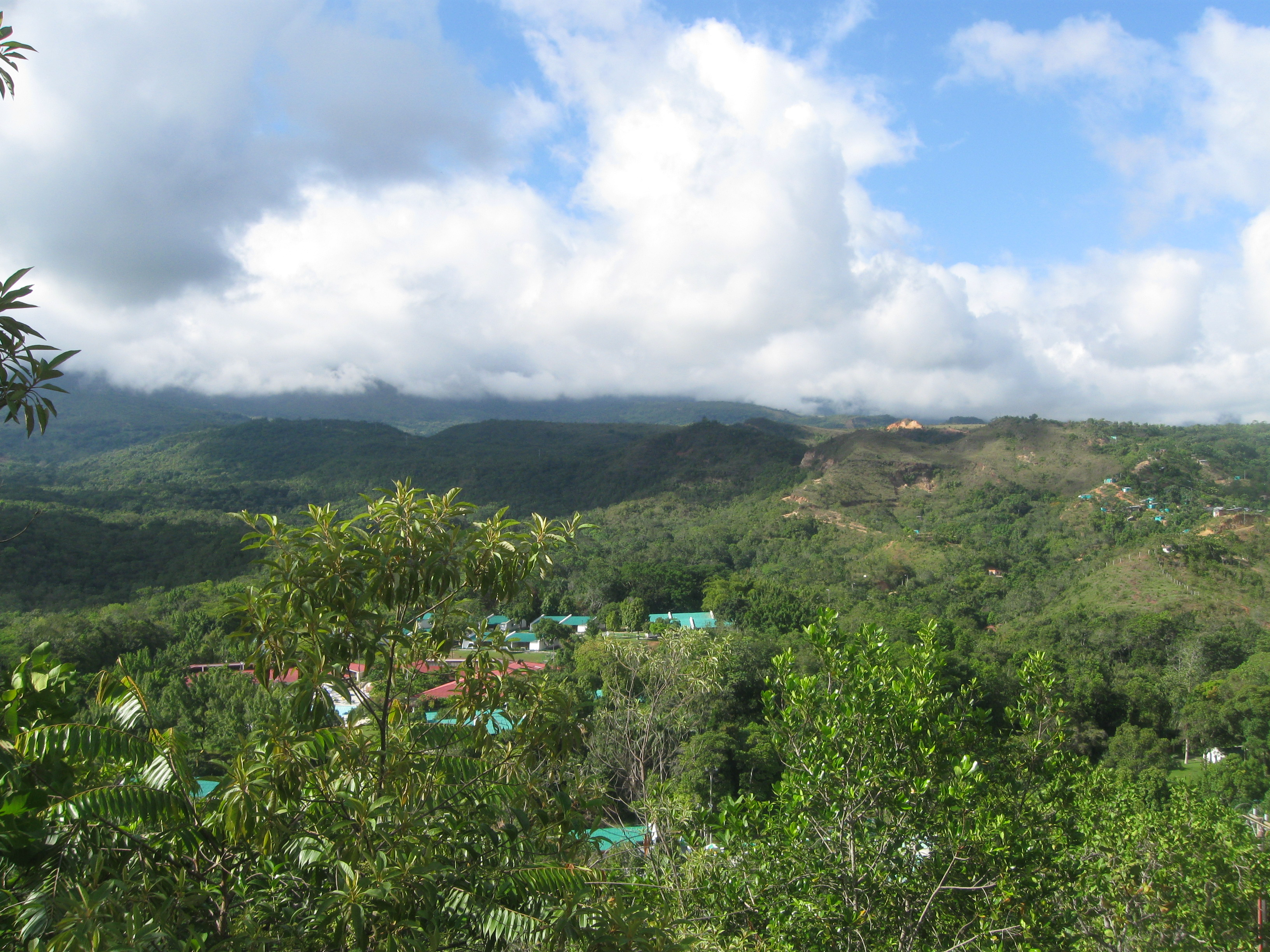 View from top of a mountain of Cafam Melgar Colombia Two hours from the capital, Bogota